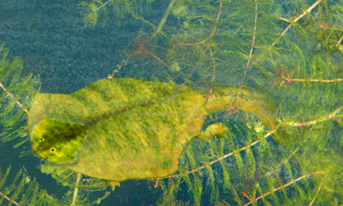 Conjectural restoration of a mimetic Diplocaulus with dorsal skin (drawing Nihil scimus since [1])